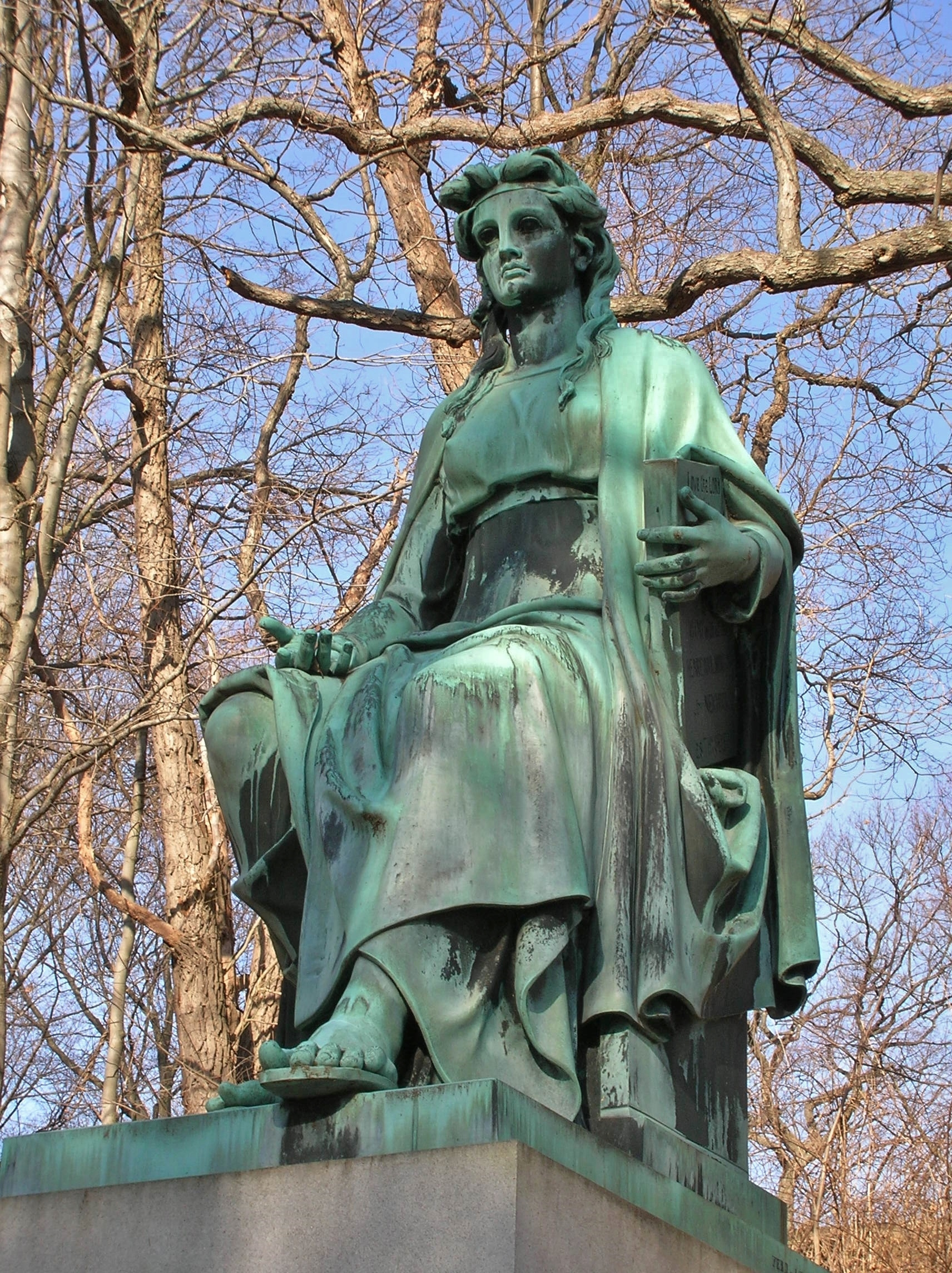 Benedict family monument, sculpted by Ferdinand von Miller in 1872, located in Riverside Cemetery, Waterbury, CT. Photo was taken January 31, 2016.